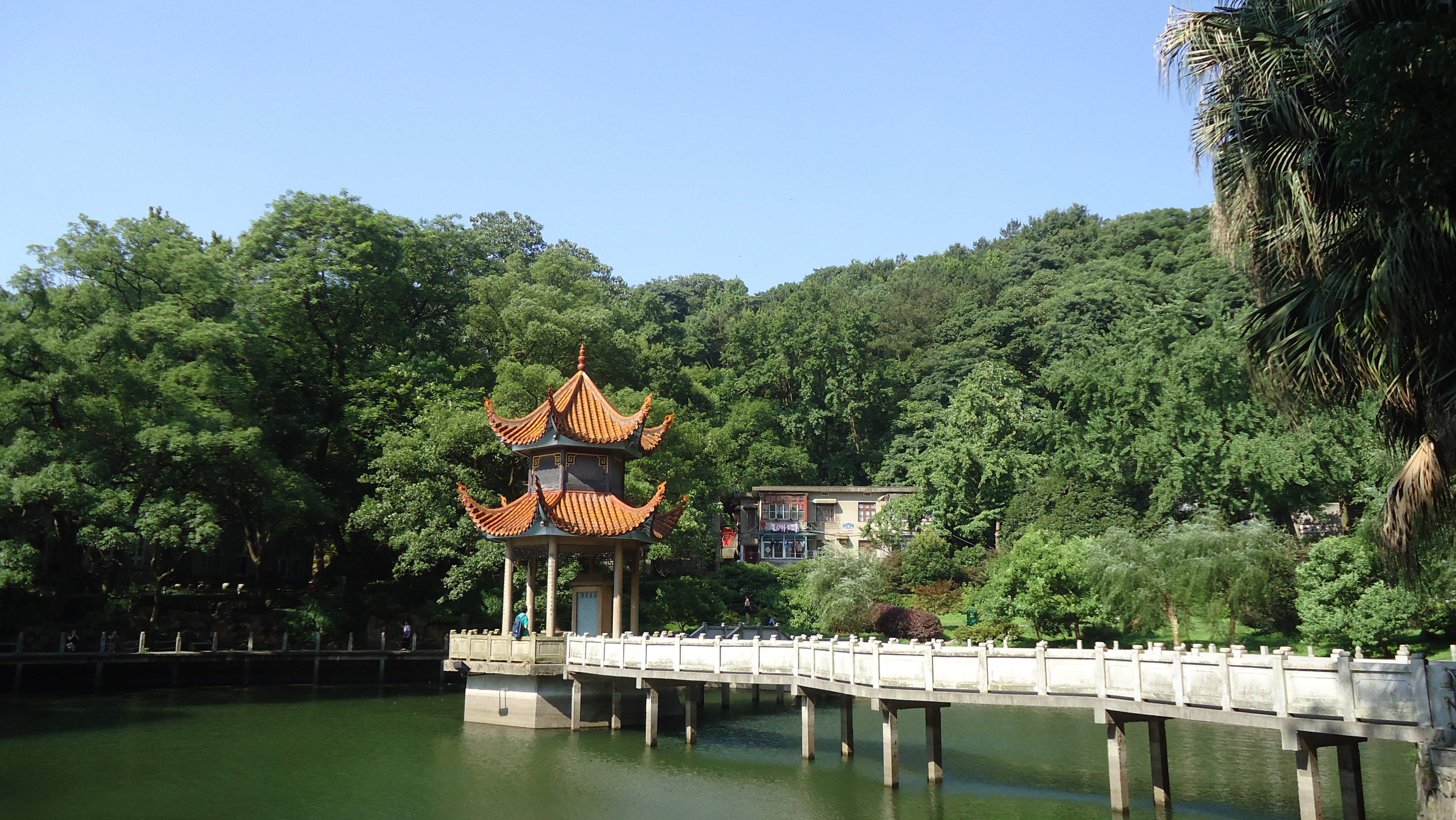 Hunan Normal University,founded in 1938, is a higher education institution located in Changsha, Hunan Province, People's Republic of China. The University is a national 211 Project university, one of the country's 100 key universities in the 21st century that enjoy priority in obtaining national funds.